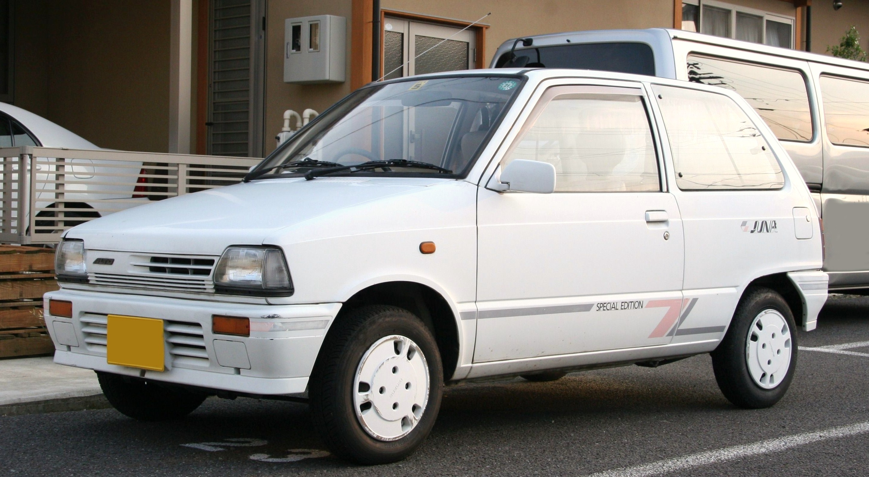 Suzuki Alto Juna edition